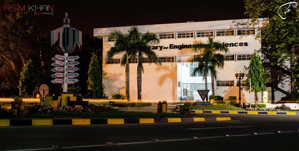 A beautiful view of UET Library at night. Photo by Asim Khan, Founder AKS UET Photography Society